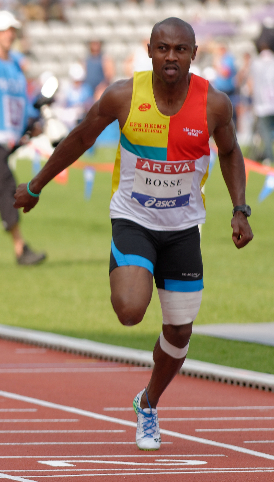 From left to right, Jimmy Vicaut, Christophe Lemaitre, Emmanuel Biron, and Béranger Aymard Bosse decelerate after running the men's 100-metre race during the French Athletics Championships 2013 at Stade Charléty in Paris, 13 July 2013.